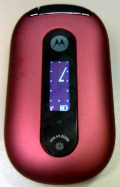 Photo of the Motorola PEBL mobile phone.